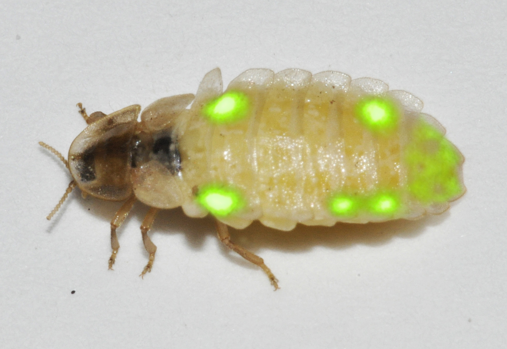 Lamprohiza splendidula, female. Image composed of two photos, one with flash (Lamprohiza-splendidula-Goettingen-09.jpg) and one without, showing the light emission zones. Southern margin of IWF area, Nonnenstieg 72, Göttingen, Germany.